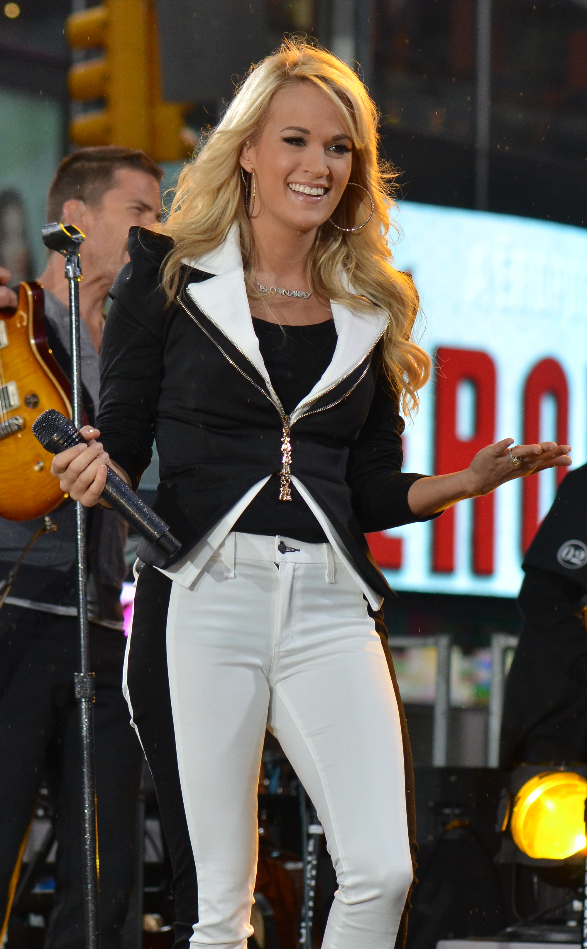 Carrie Underwood performing live in Times Square